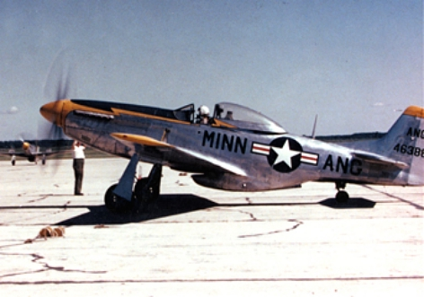 A U.S. Air Force North American F-51D-20-NA Mustang (s/n 44-6388?) from the 179th Fighter Squadron, 133rd Fighter Group, Minnesota Air National Guard, which flew the F-51 from 1948 to 1954.